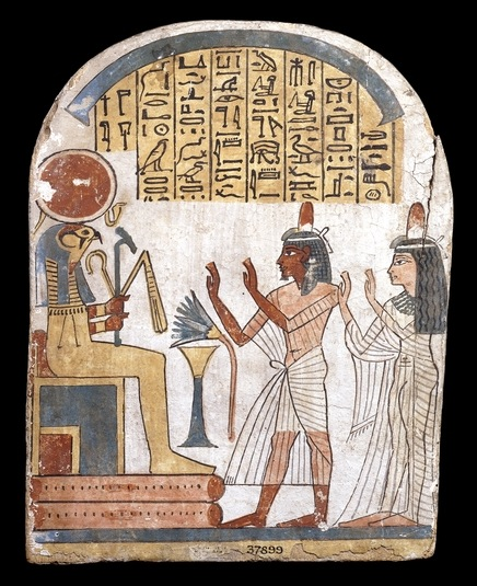 Wooden stele depicting Naftekhmut and his daughter Shepeniset worshipping Ra-Horakhty